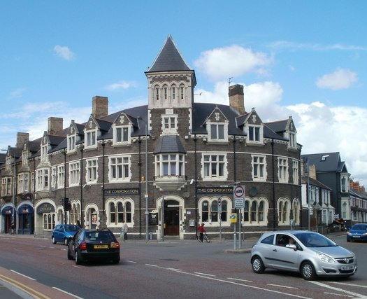 Pub on the corner of Cowbridge Road East and Llandaff Road. The year carved in stone above the second floor window above the doorway is 1889.